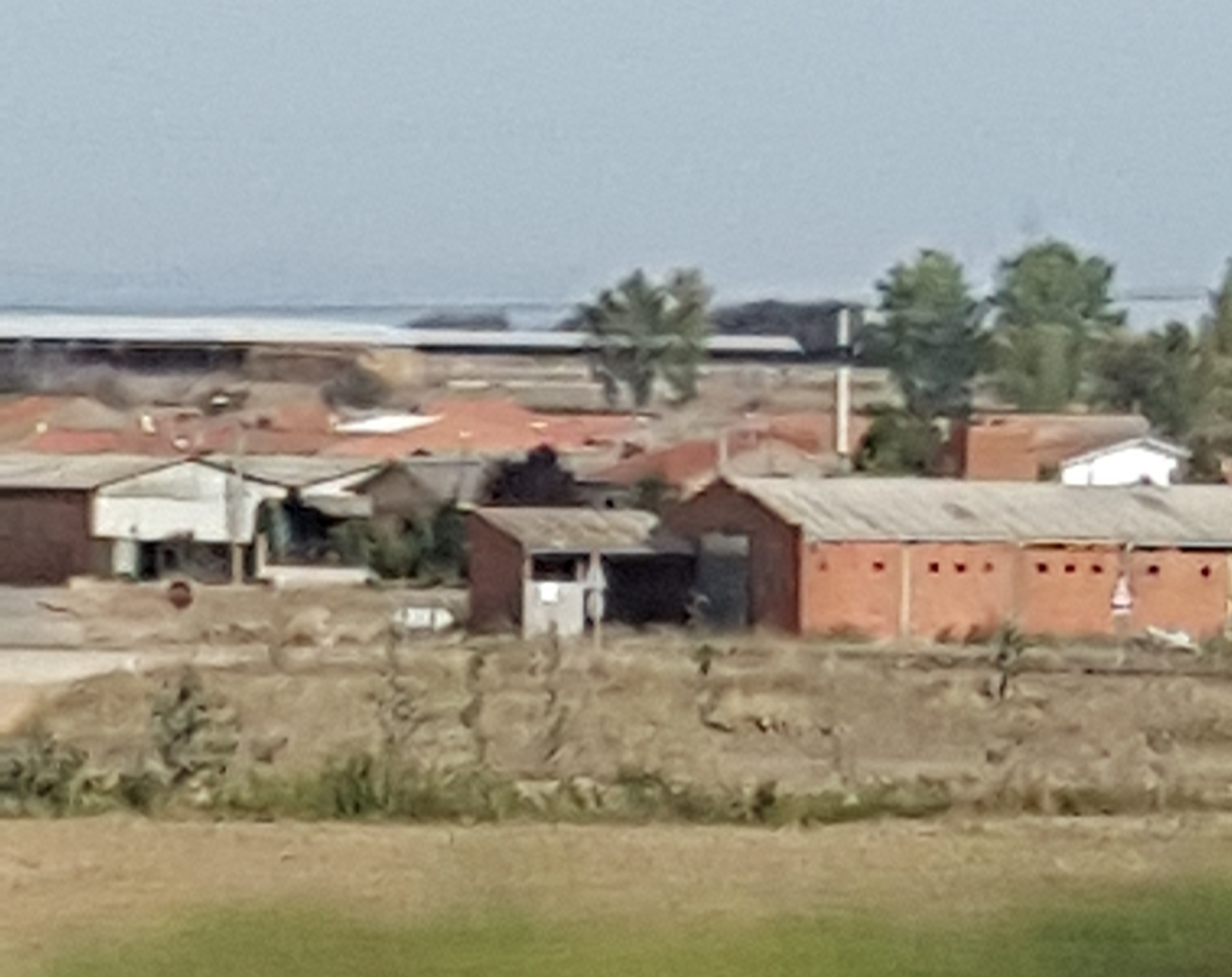 Cebrones del Río, León, Spain